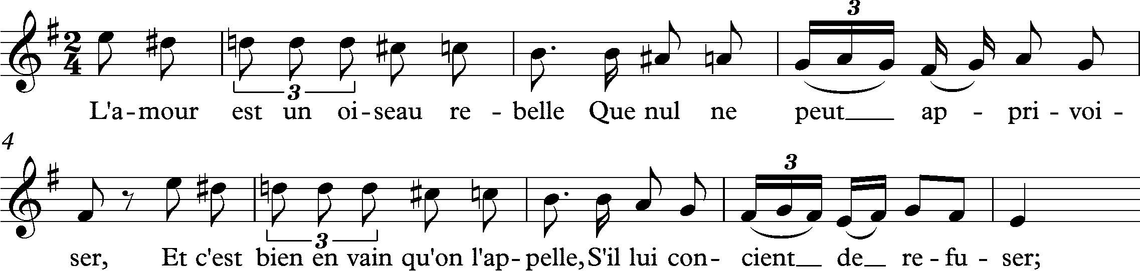 Aria from Bizet's Opera 'Carmen'